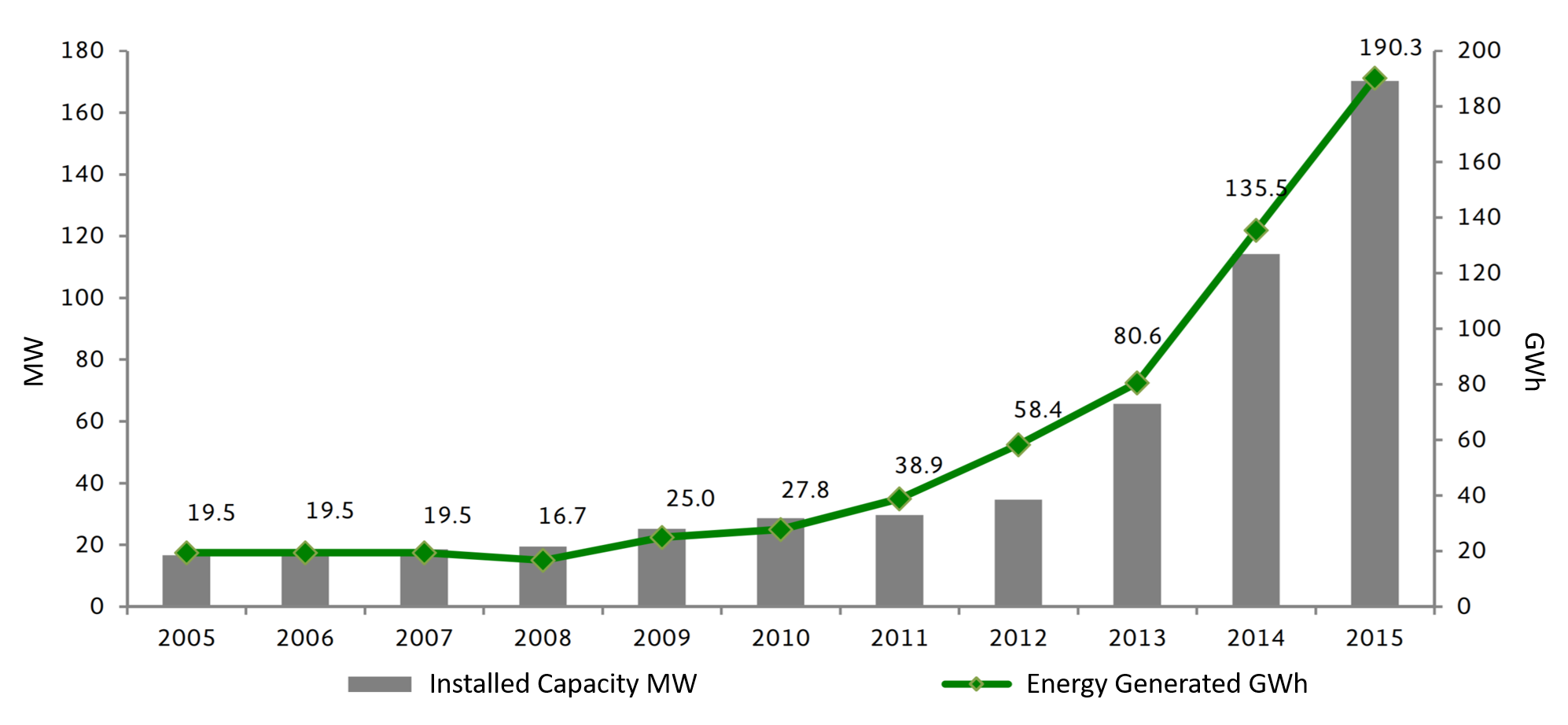 Historic progress of installed PV solar capacity and generation in Mexico from 2005 to 2015